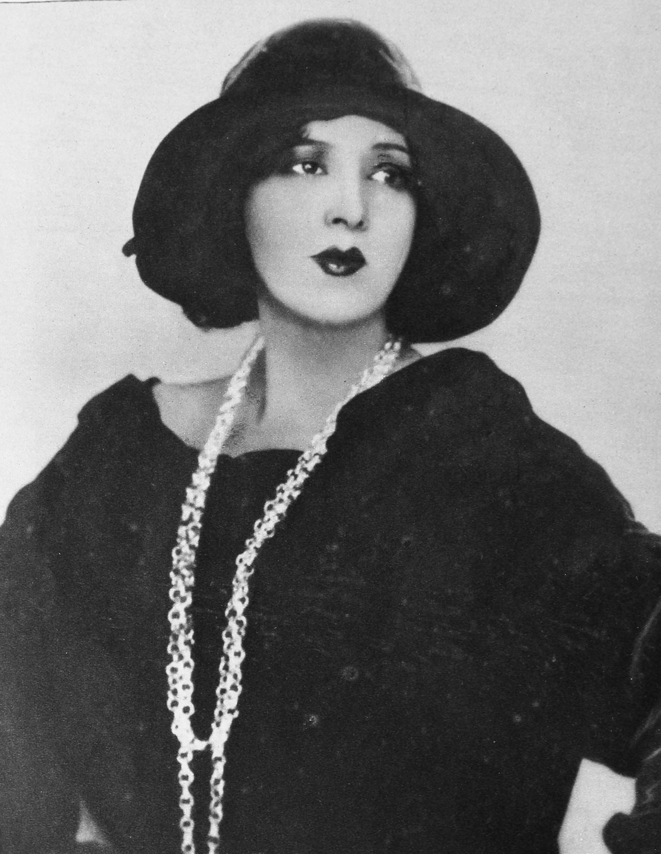 Included in the set of Rolf Armstrong's 16 screen beauties.